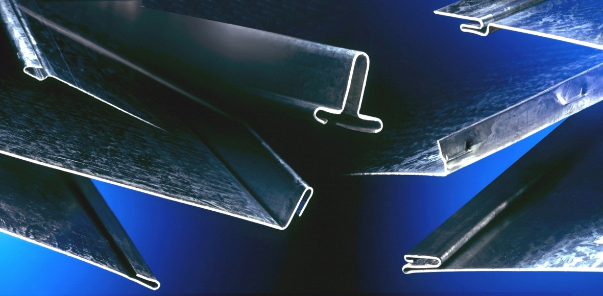 Common seams in the air duct industry